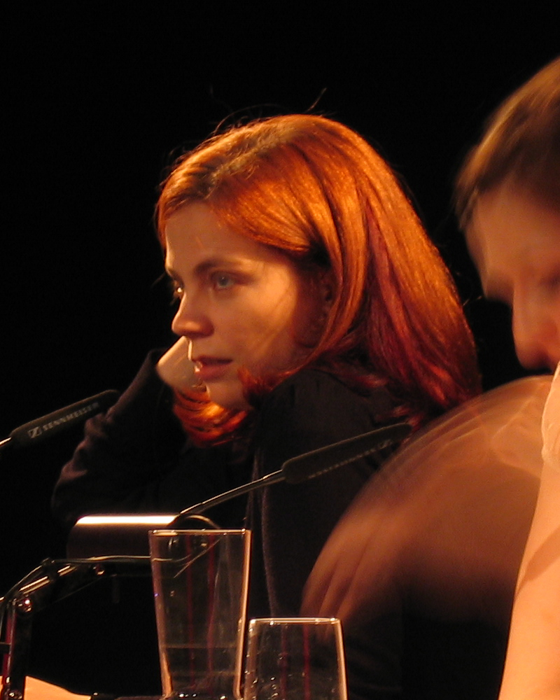 The writer Thea Dorn during a presentation on Lit.Cologne in Cologne, Germany